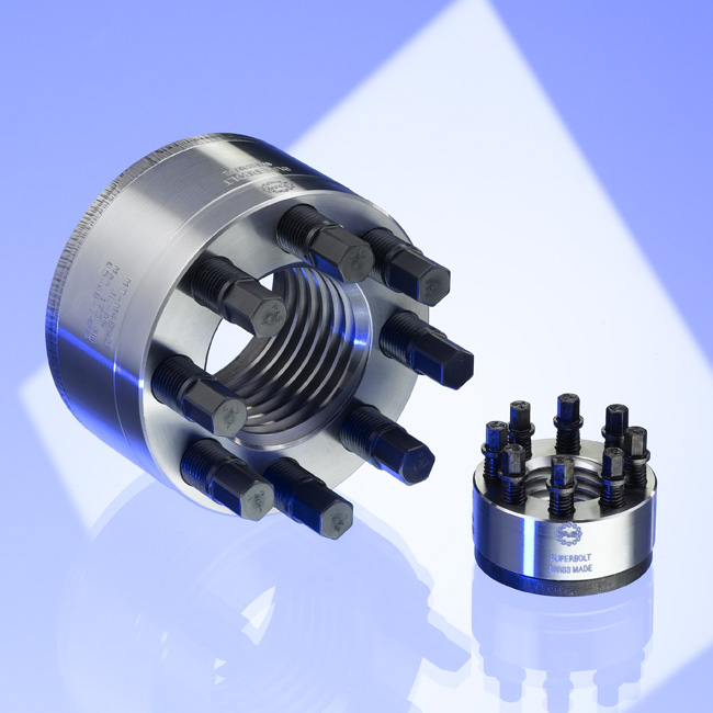 MJT Nut type